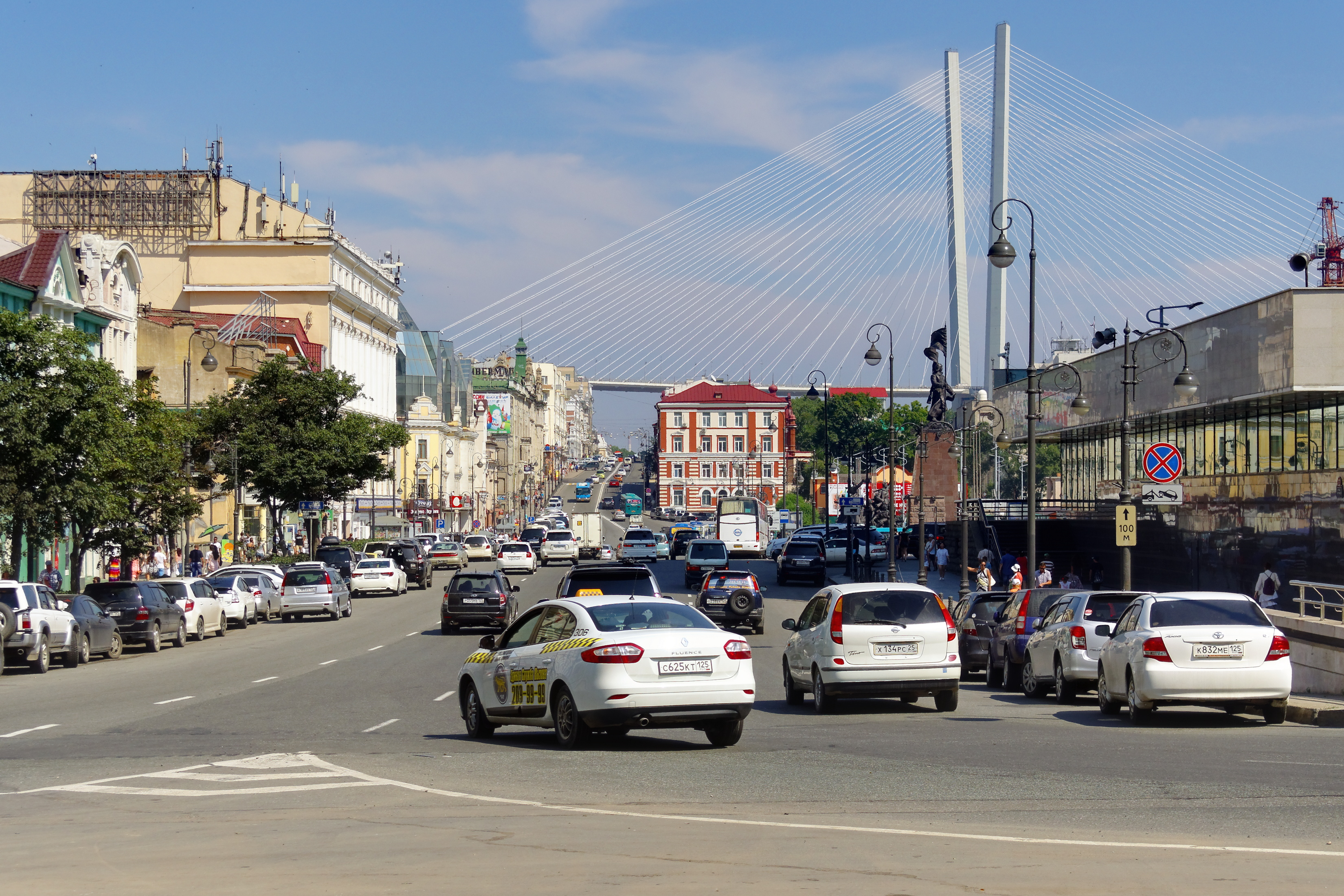 Vladivostok. Svetlanskaya street